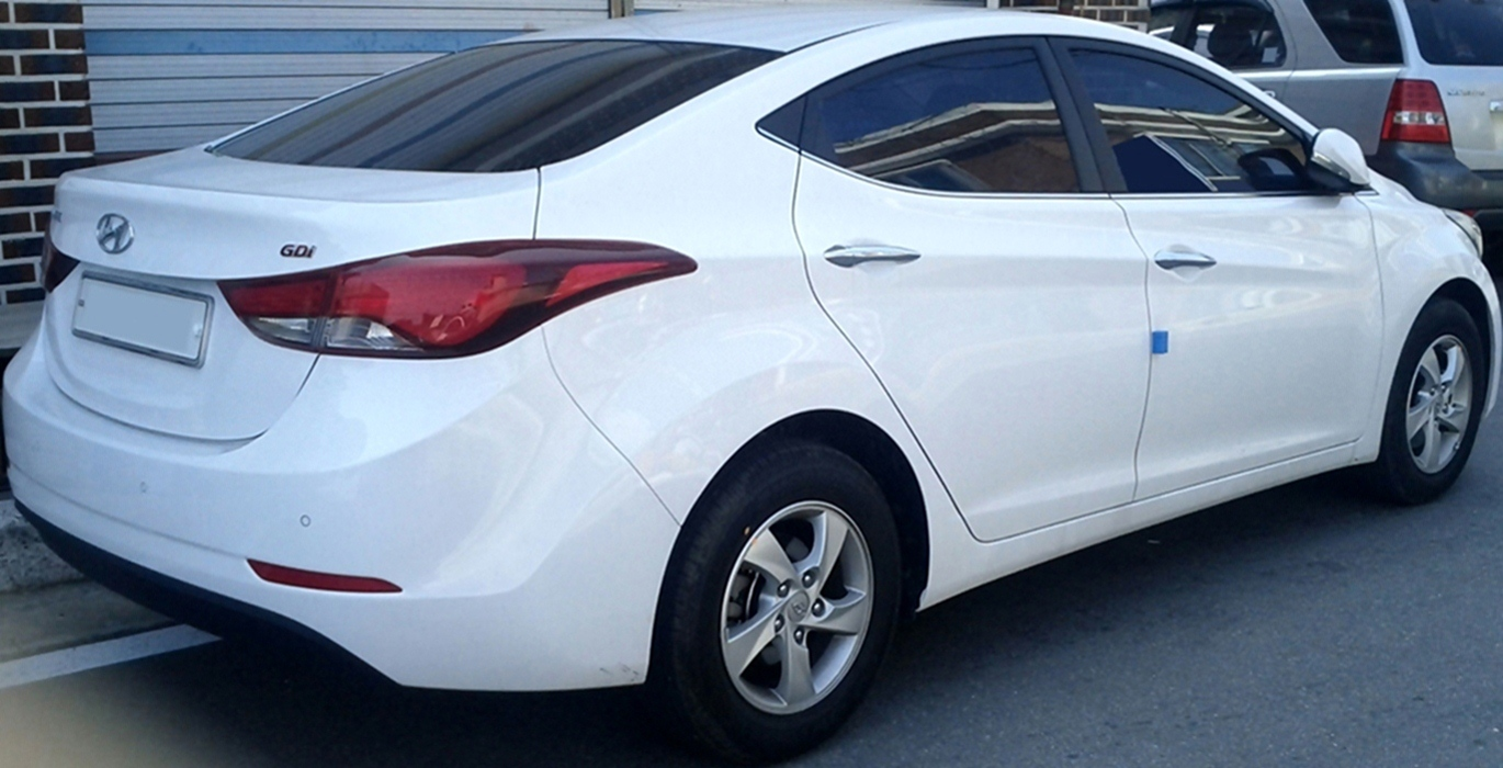 Hyundai The New Avante